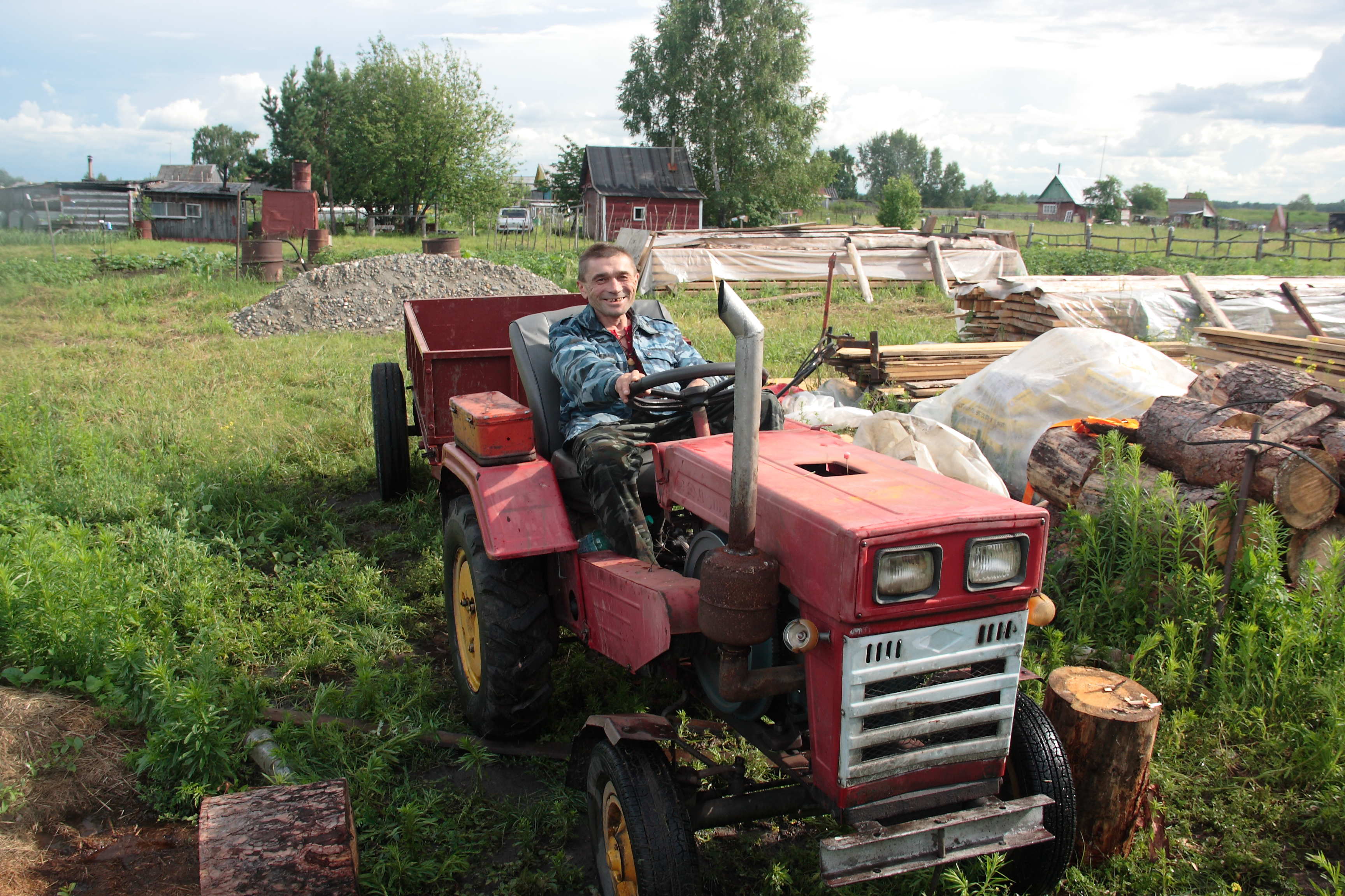 Chines minitractor with single cylinder diesel engine S1100 and belt drive from engine to gearbox